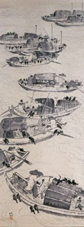 roll: "Cormoran-fishing"